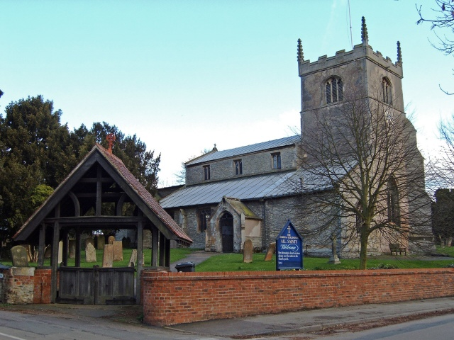 Church of All Saints, North Collingham. Although this church, dating from the 11th century, is regarded as the main parish church for the village of Collingham, North and South Collingham used to be separate parishes each with their own church. Even though it stands on the aptly named Low Street, the church is on a slight rise and has escaped the floods from the River Fleet during the last centuries. The depth of an 18th century flood is carved into the gate post at the western end of the churchyard.